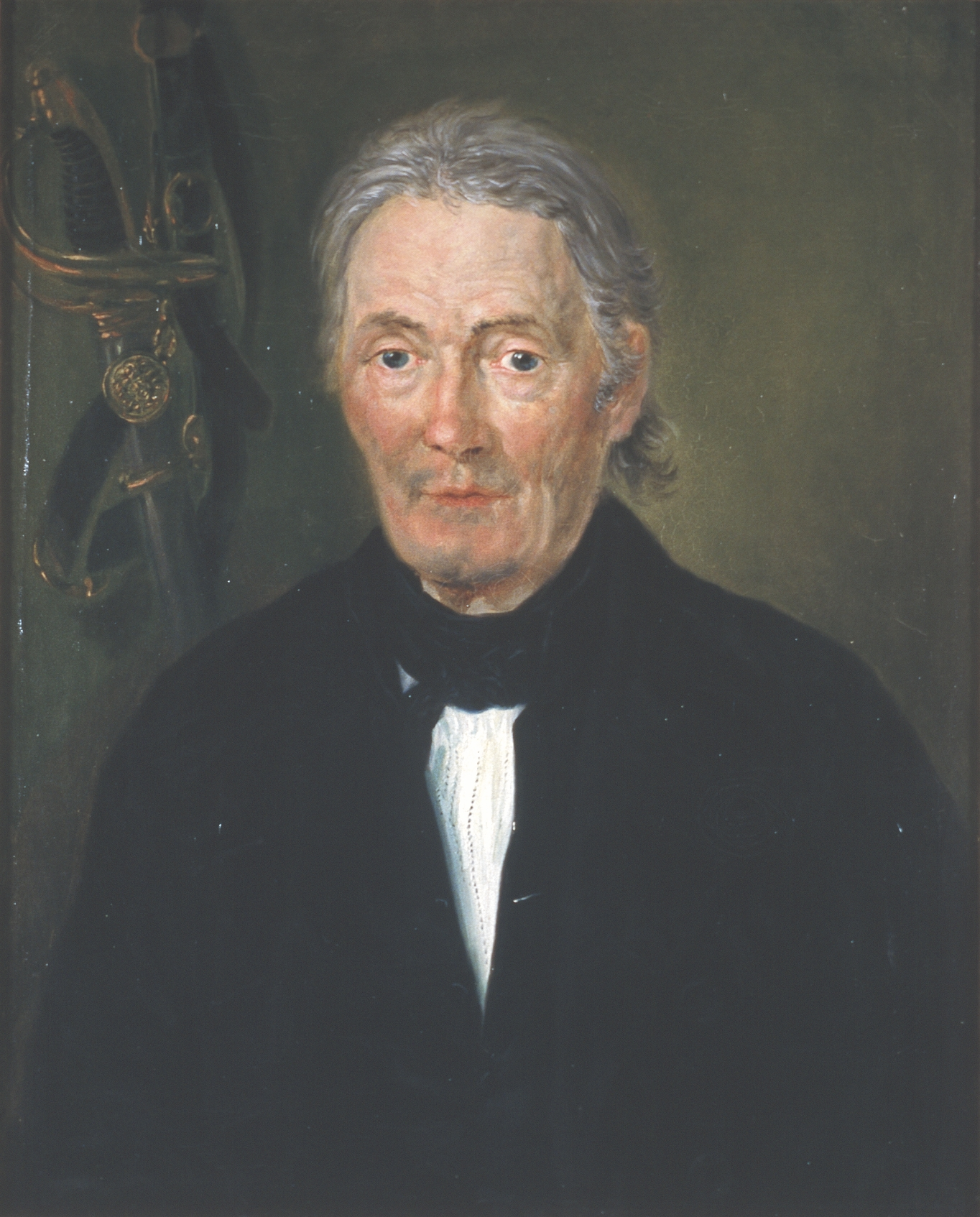 Ac. to Norsk portrettarkiv the rapier in upper left part is painted by Christian Olsen.